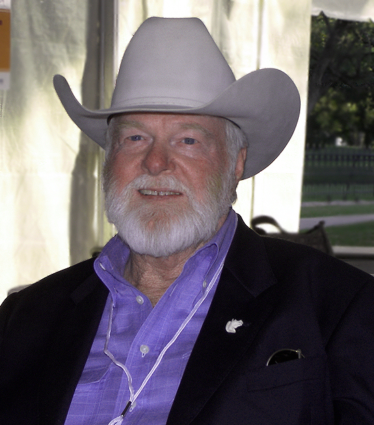 Red Steagall at the 2007 Texas Book Festival, Austin, Texas, United States.